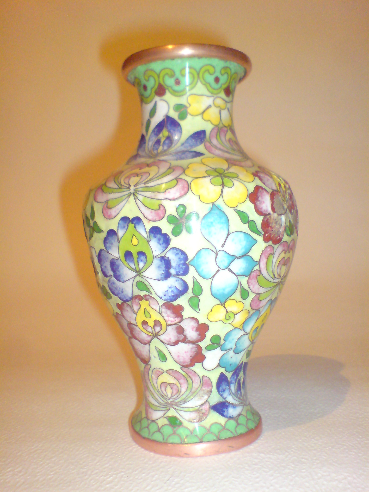 Bronze chinese vase